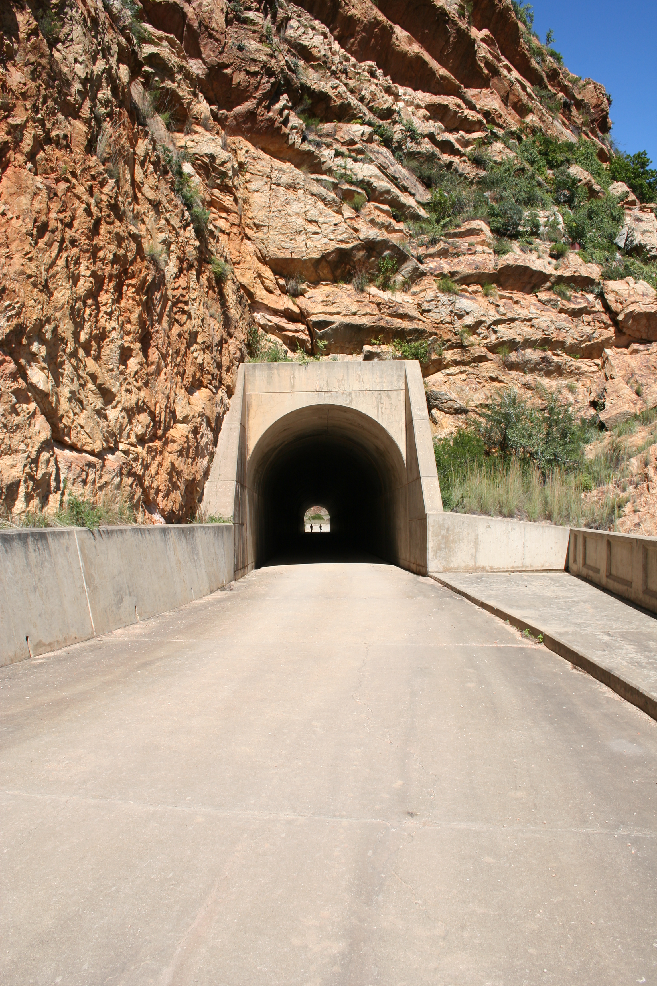 Tunnel to access the Kouga/Paul Sauer Dam Wall